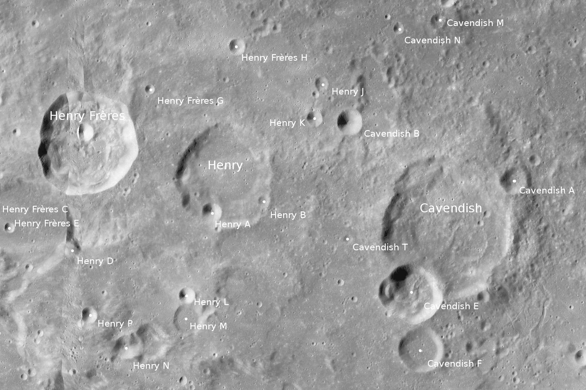 Craters Henry Frères, Henry and Cavendish (detail of LRO - WAC global moon mosaic; Mercator projection)